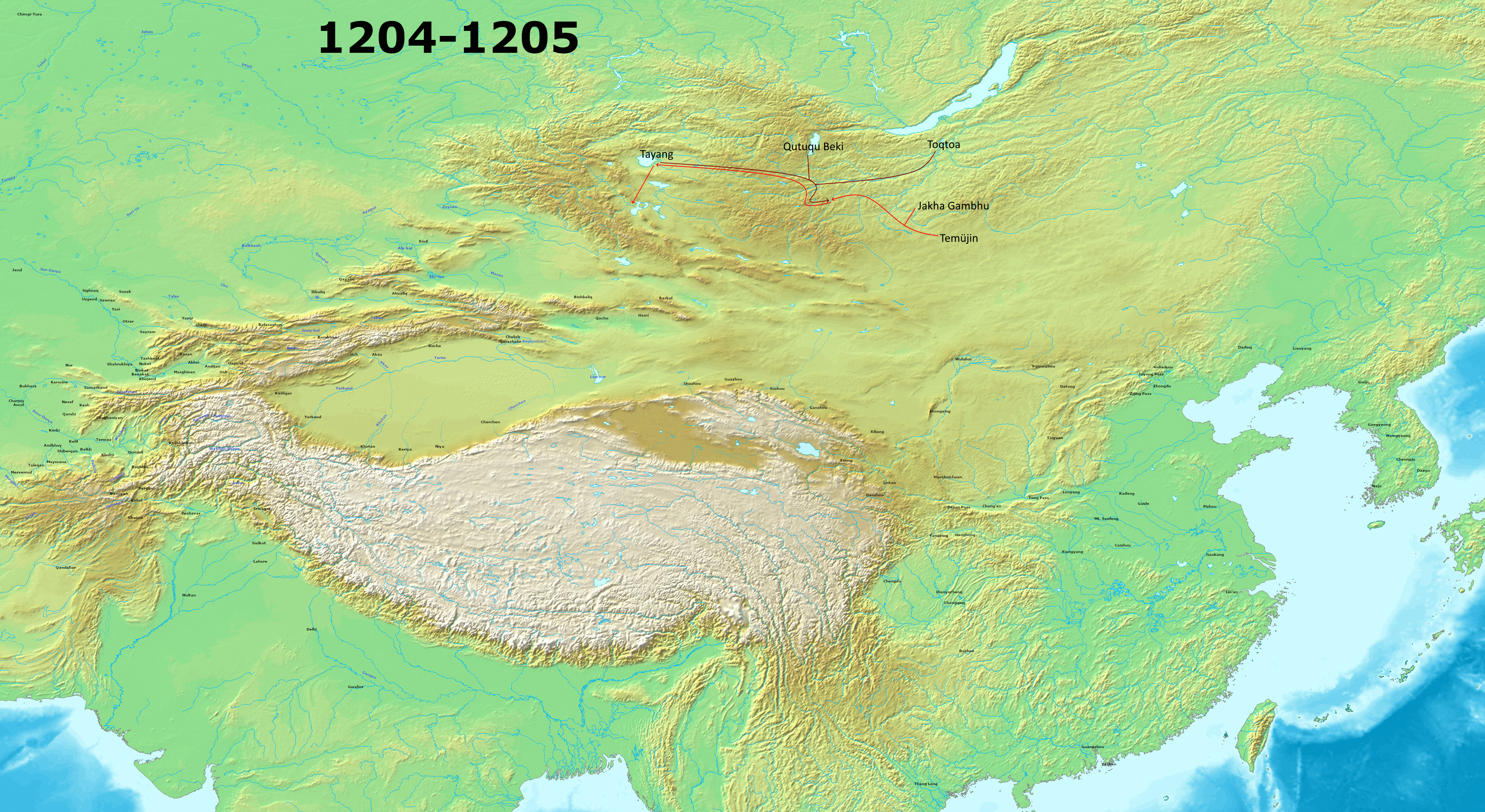 1204-1205 Mongol War